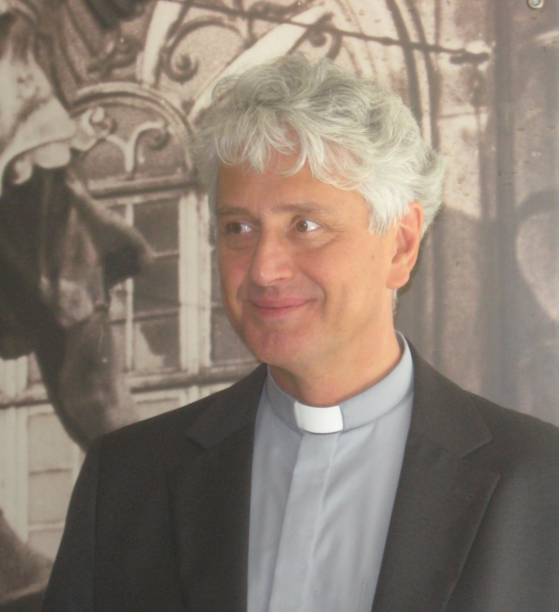 pastor Alexander Röder after the service on 4th October 2009